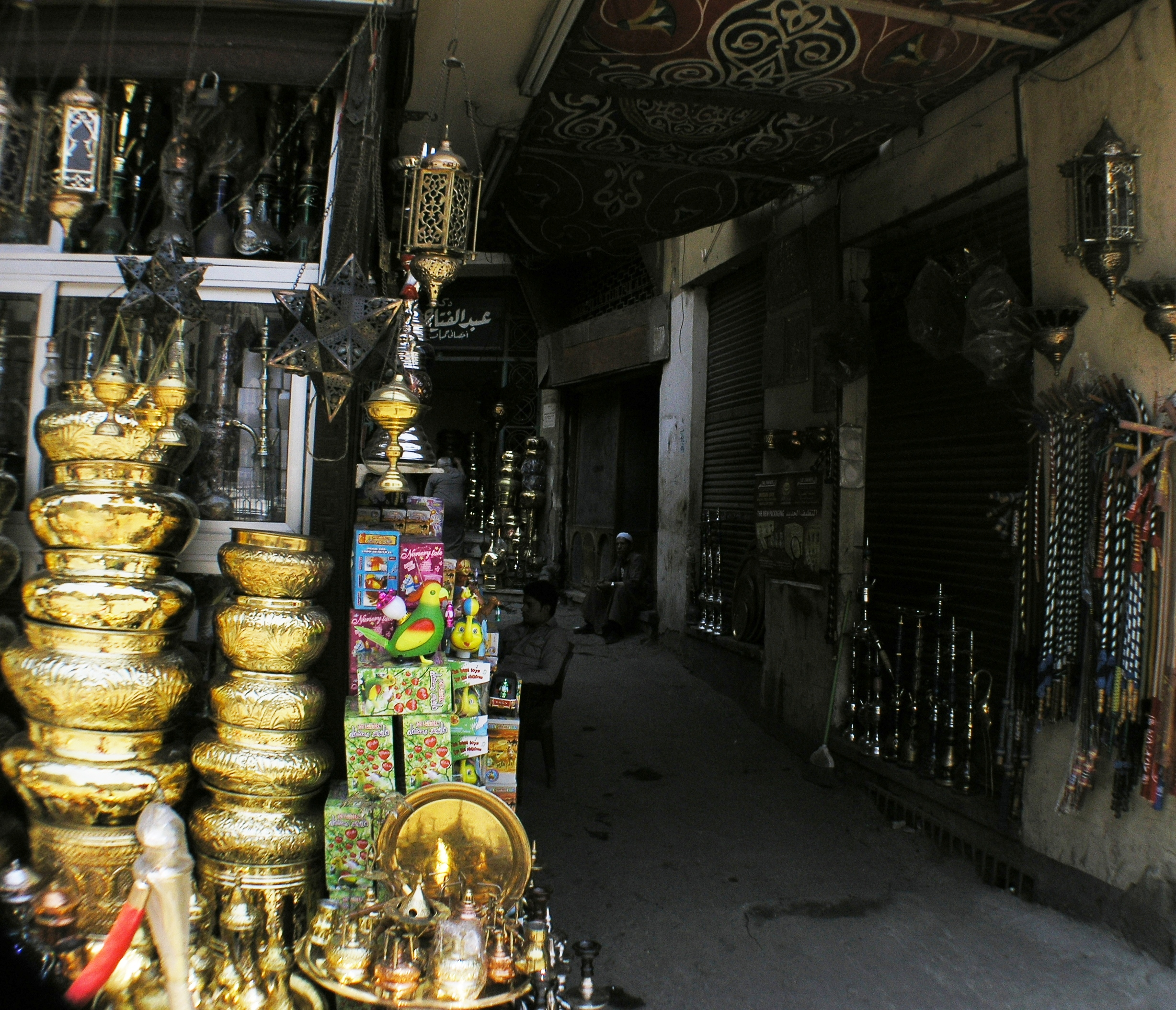 Cairo - Islamic district - Khan al Khalili shops